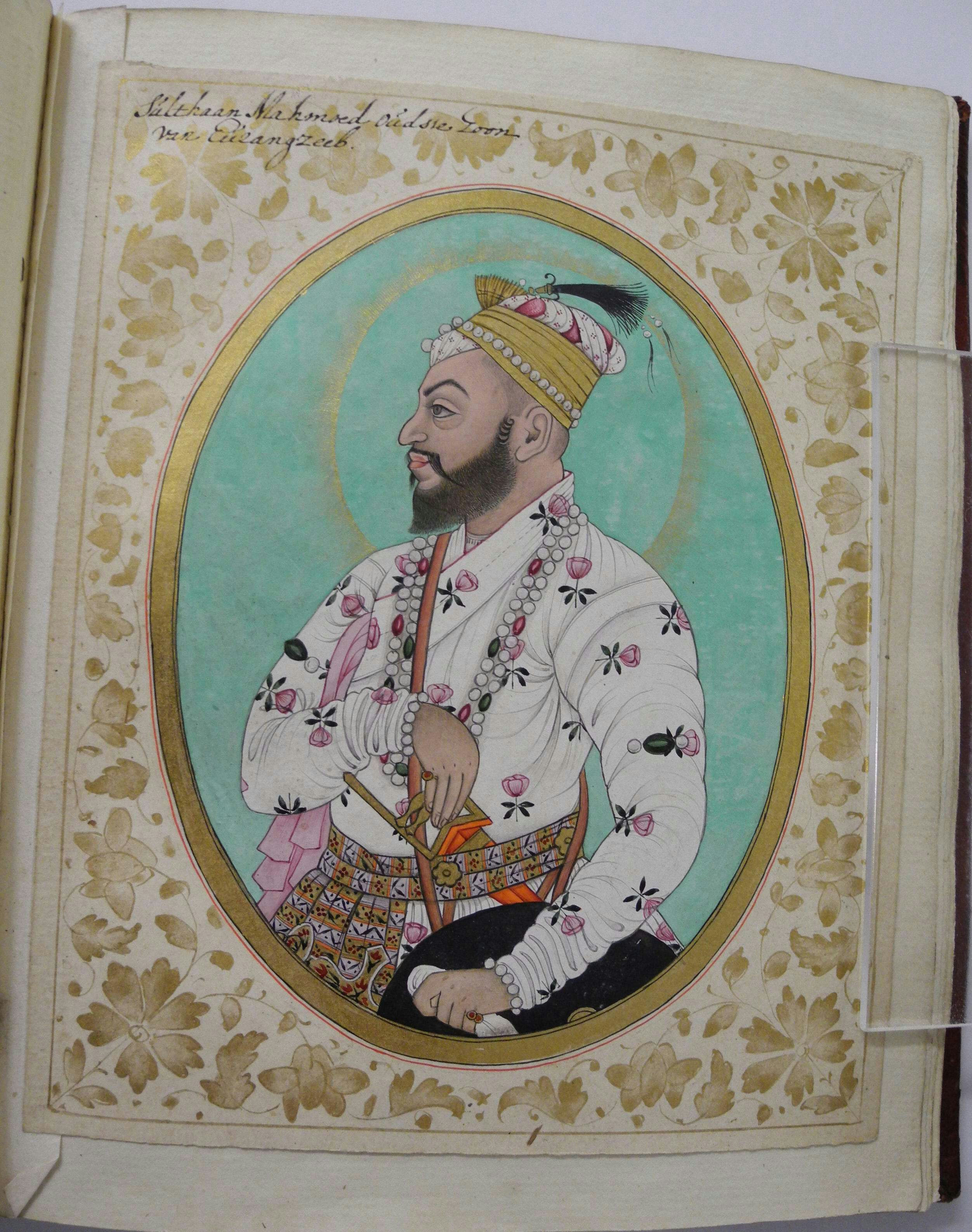 Album leaf. Portrait. Sultan Muḥammad or Sultan Mahmud + inscription. On paper. See 1974,0617,0.11 for album description.